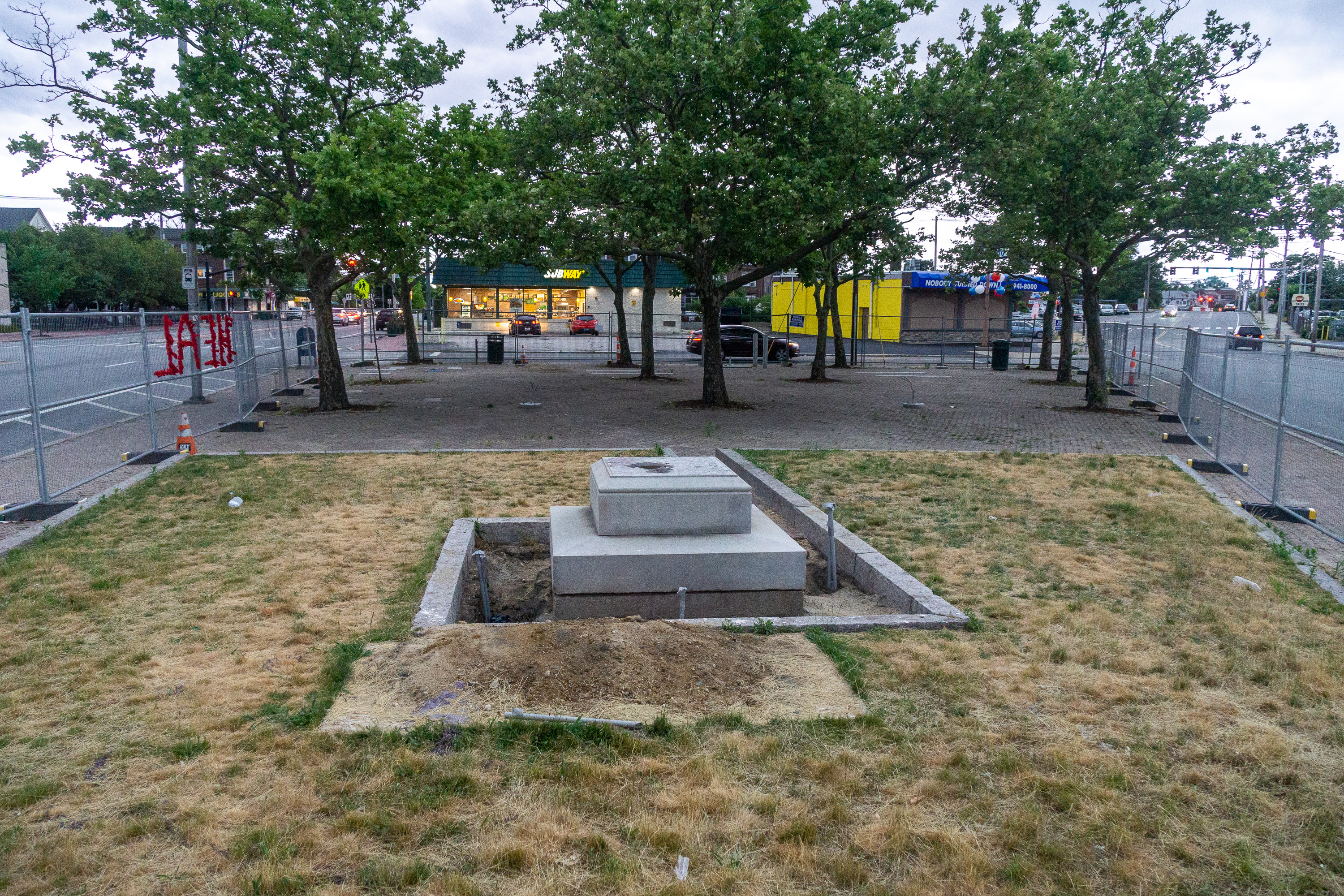 Former location of Bartholdi's Christopher Columbus statue in Columbus Square, Providence Rhode Island. The statue was removed June 25, 2020. Photo taken June 28.